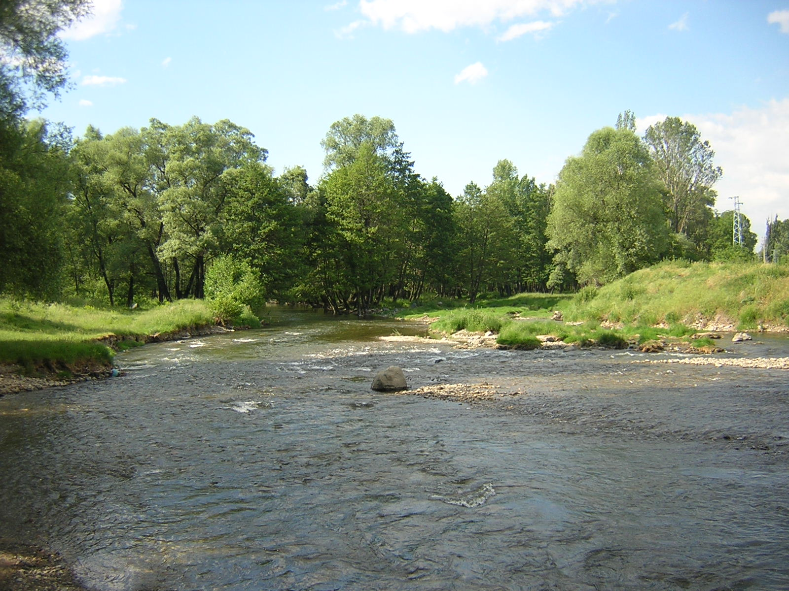 The Iskar River at German, just below Lake Pancharevo.